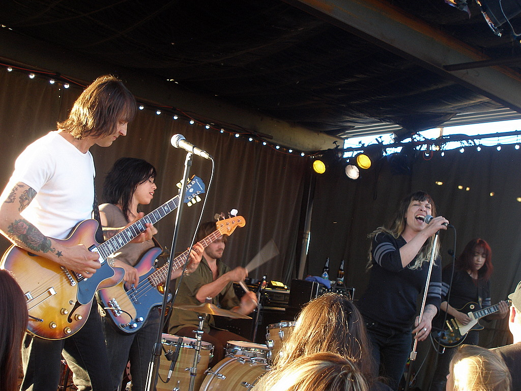 CObras @ Santa Fe Brew Co